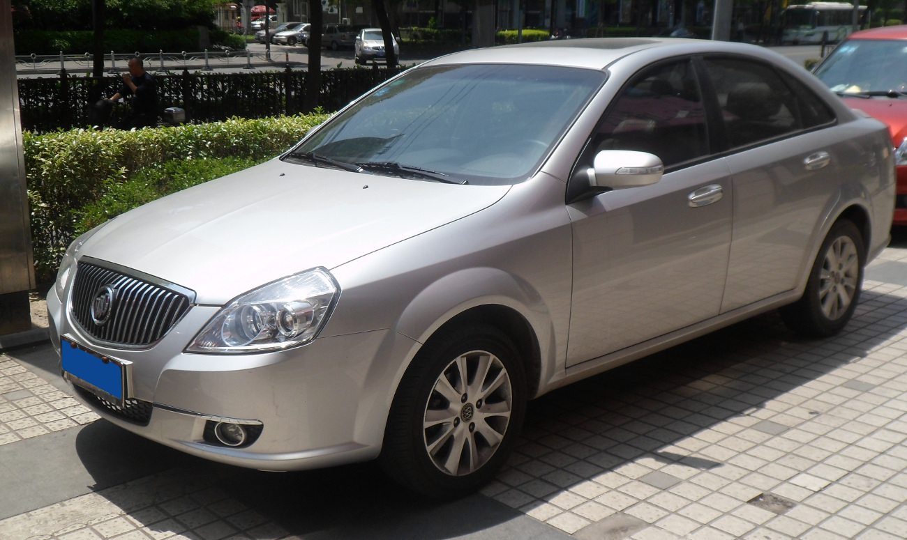 Buick Excelle facelift photographed in Shanghai, China.